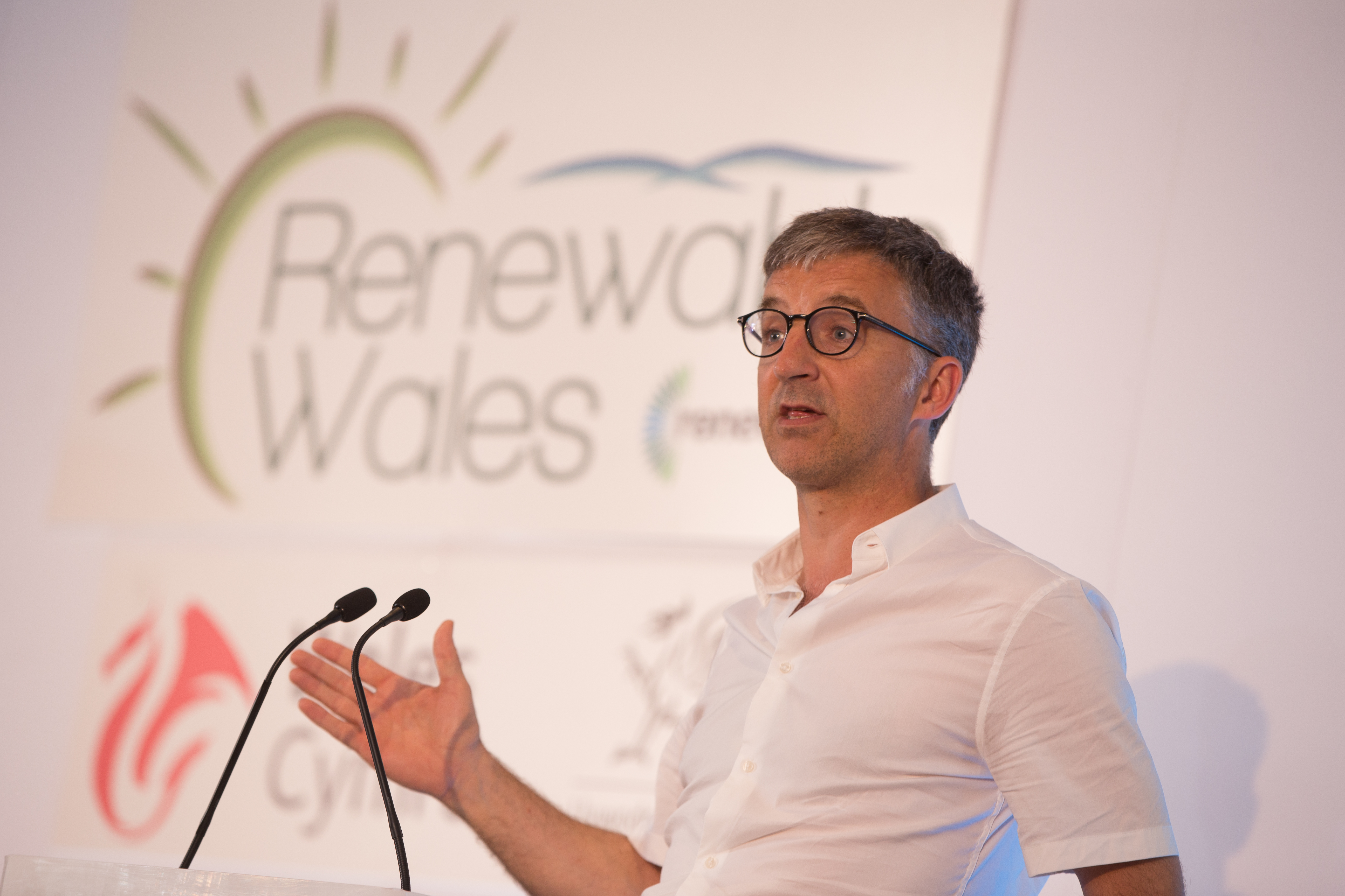 Renewable Wales Conference 2016 16.06.16 © Steve Pope Fotowales